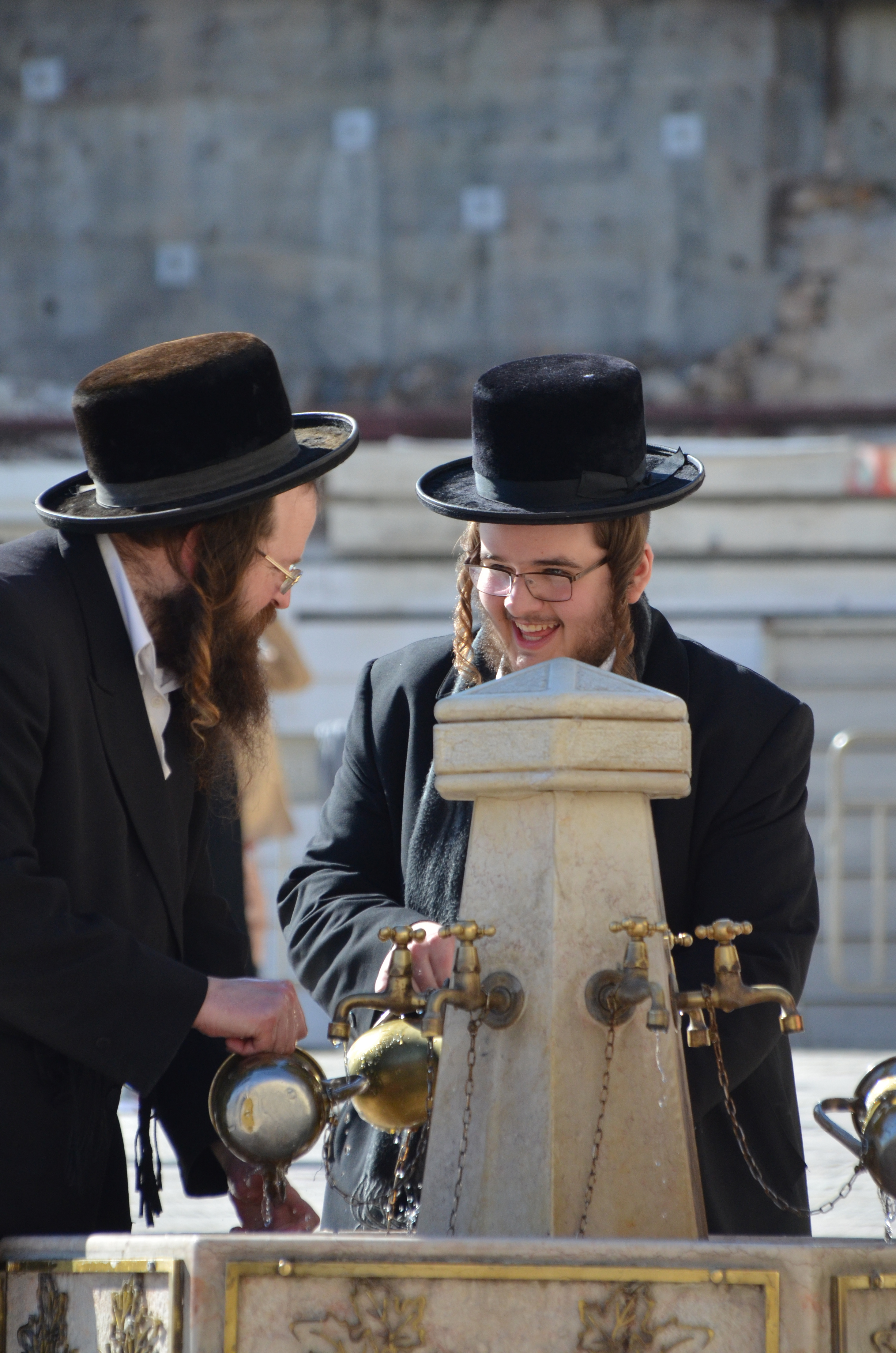 Ultra-orthodox jews washing their hands at the Western Wall in Jerusalem